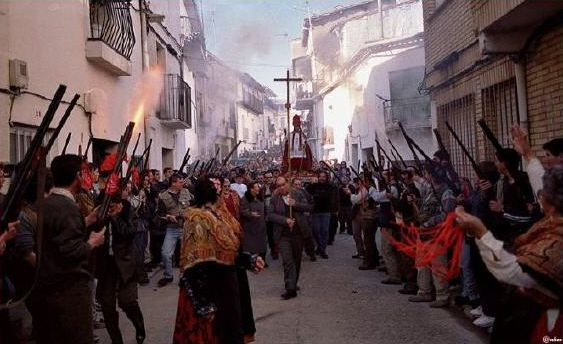 San Blas Cilleros